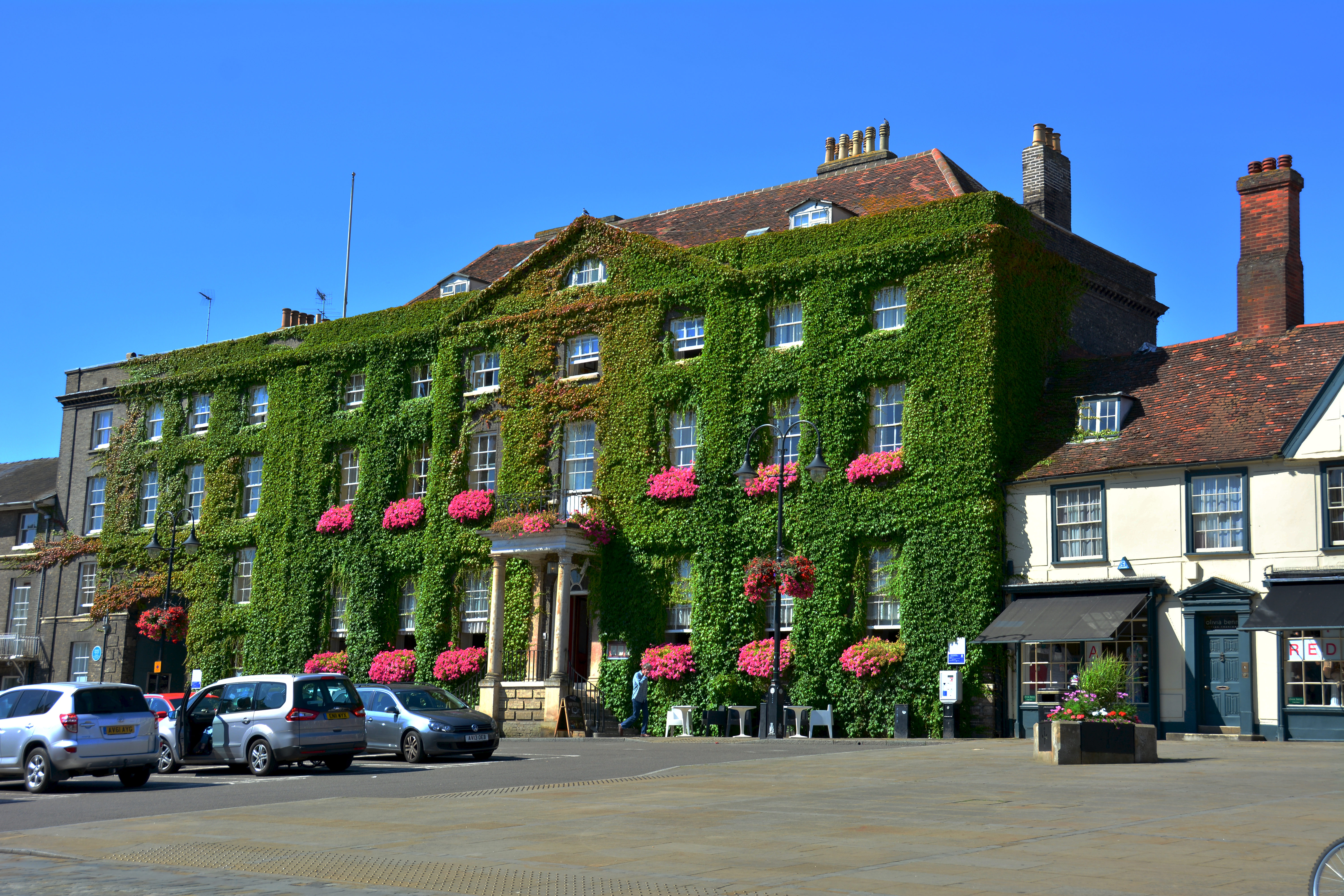 Bury St Edmunds 9-8-2015